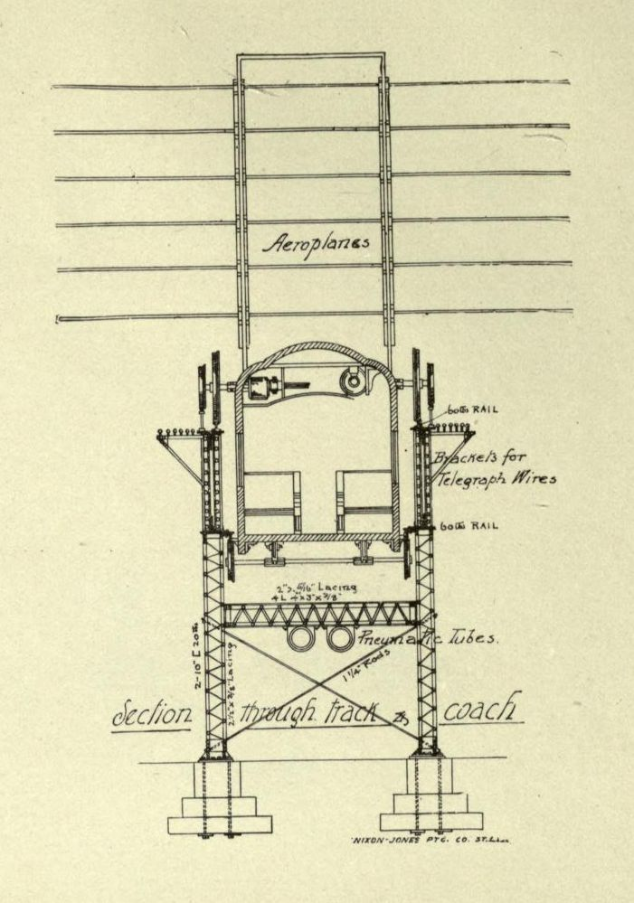 Section of the never-realized Chase-Kirchner aerodromic railway, from the GN Chase and HW Kirchner book: "The coming railroad. The Chase-Kirchner aerodromic system of transportation", 1894.